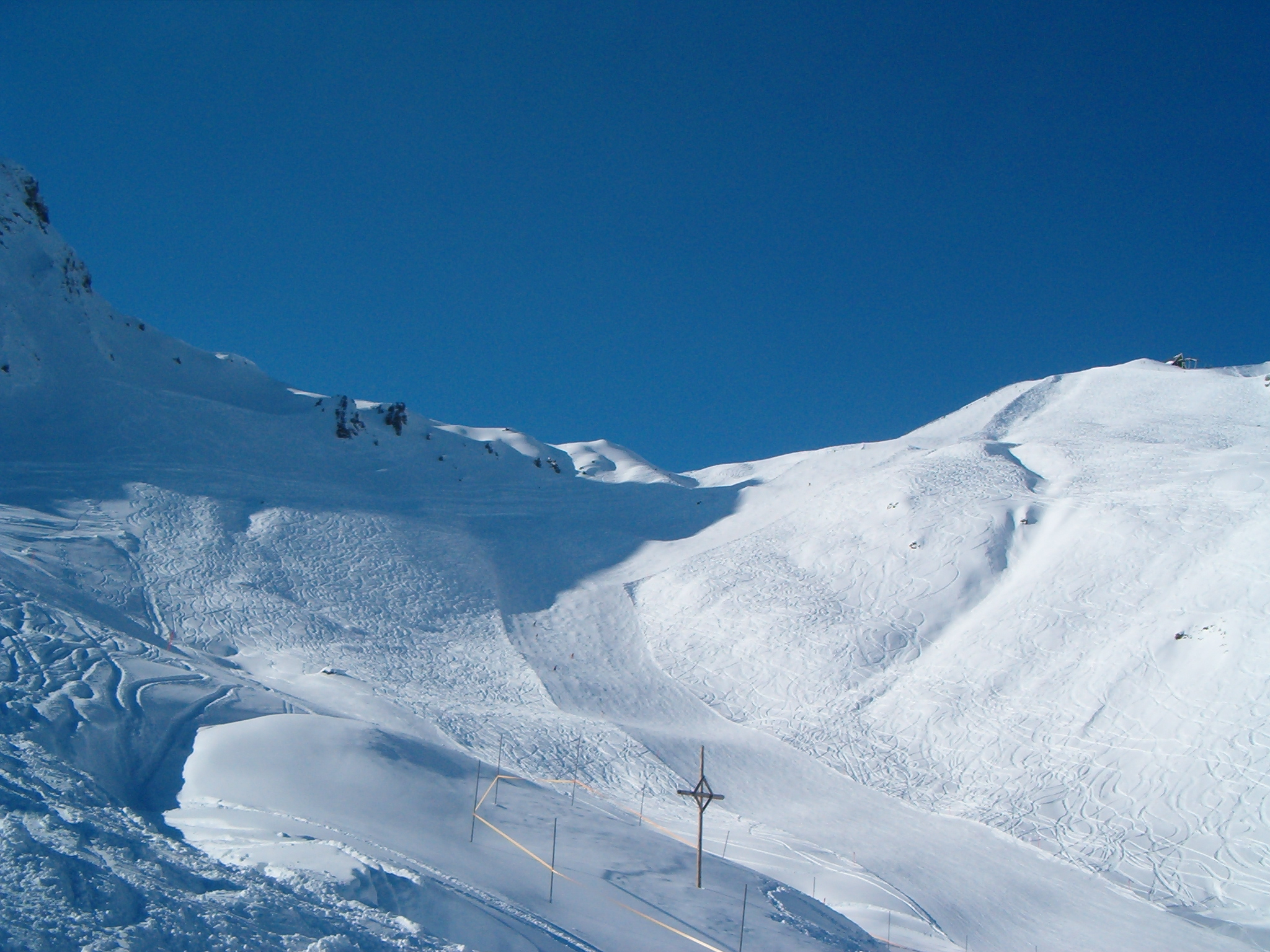 ski slopes at Carmenna Pass, Arosa, Switzerland